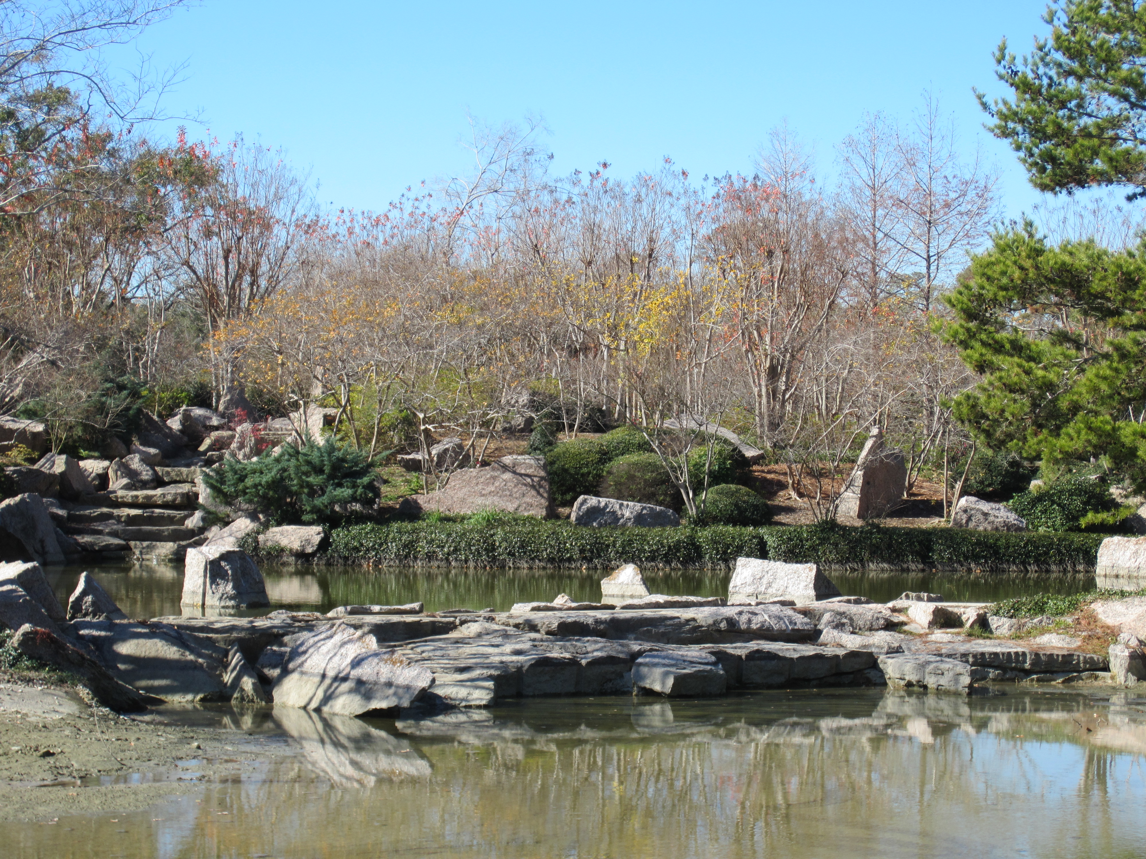 Japanese Garden at Hermann Park in Houston, Texas in January 2012